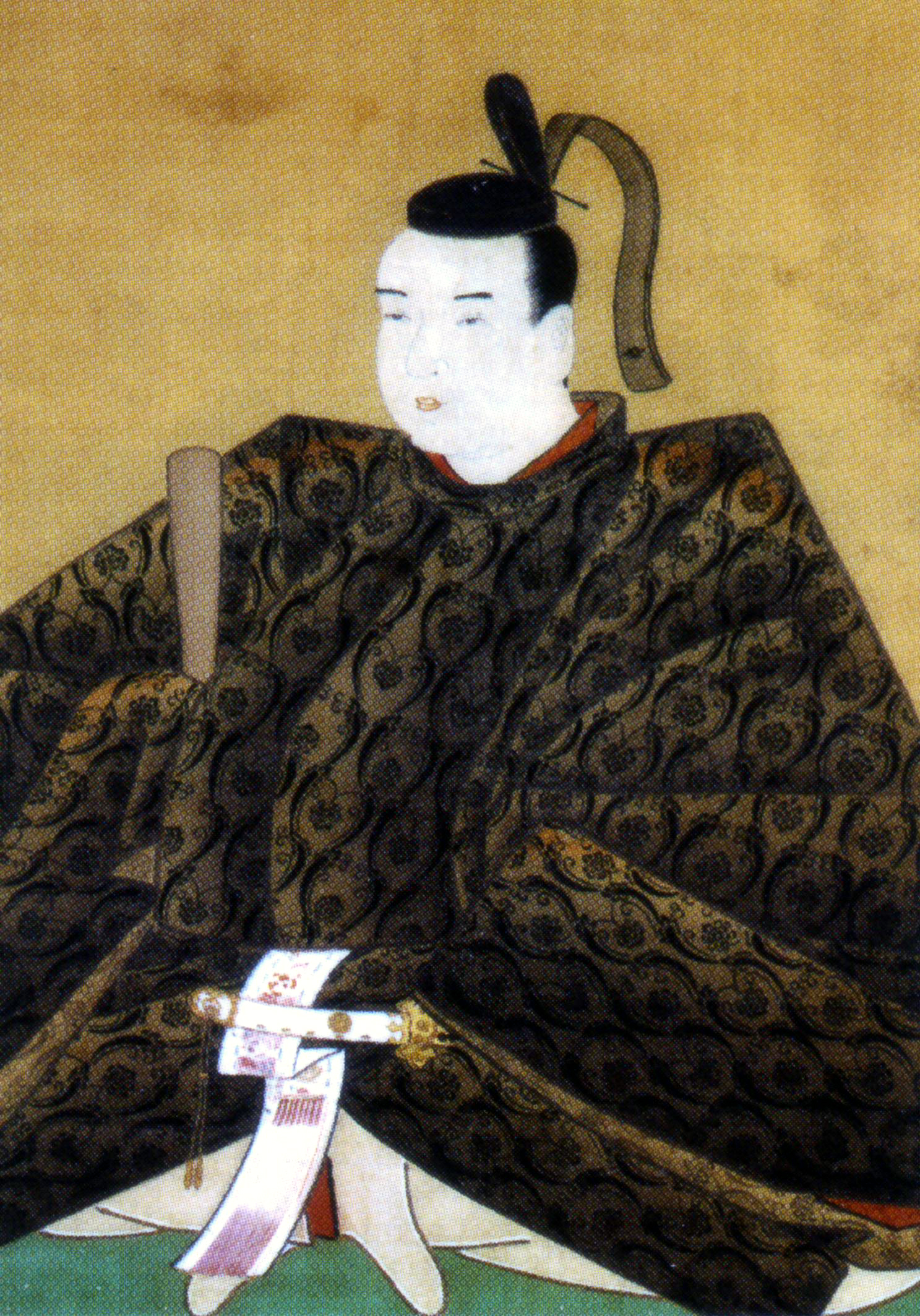 portrait of Ikeda Muneyasu(the 4th feudal lord of Tottori clan)